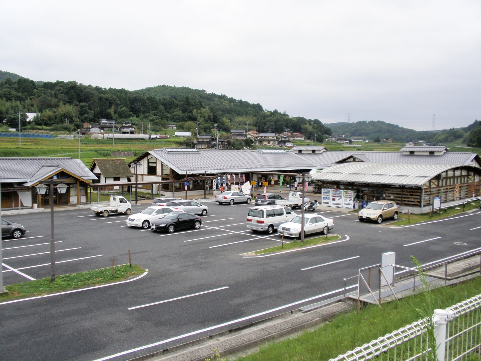 Roadside Station Kayo, Kibichūō, Okayama.